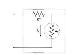 voltmeter